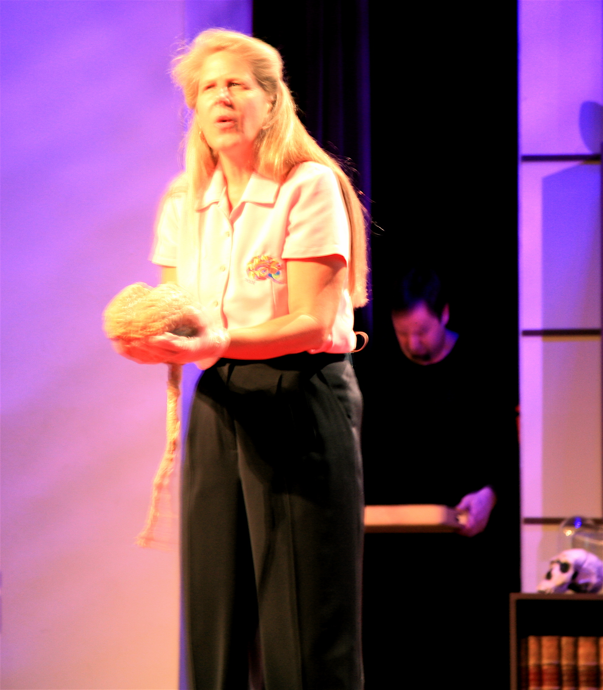 The 18 minute video of an incredible TED talk just went online: "Neuroanatomist Jill Bolte Taylor had an opportunity few brain scientists would wish for: One morning, she realized she was having a massive stroke. As it happened -- as she felt her brain functions slip away one by one, speech, movement, understanding -- she studied and remembered every moment." At one point during that perceptual blur, only her arm came into sharp focus, and then drifted into hallucination. Here she is holding a real human brain and about to launch into a humorous, yet poignant exploration of the left brain / right brain dichotomy within us all… This talk epitomizes a “TED Moment”